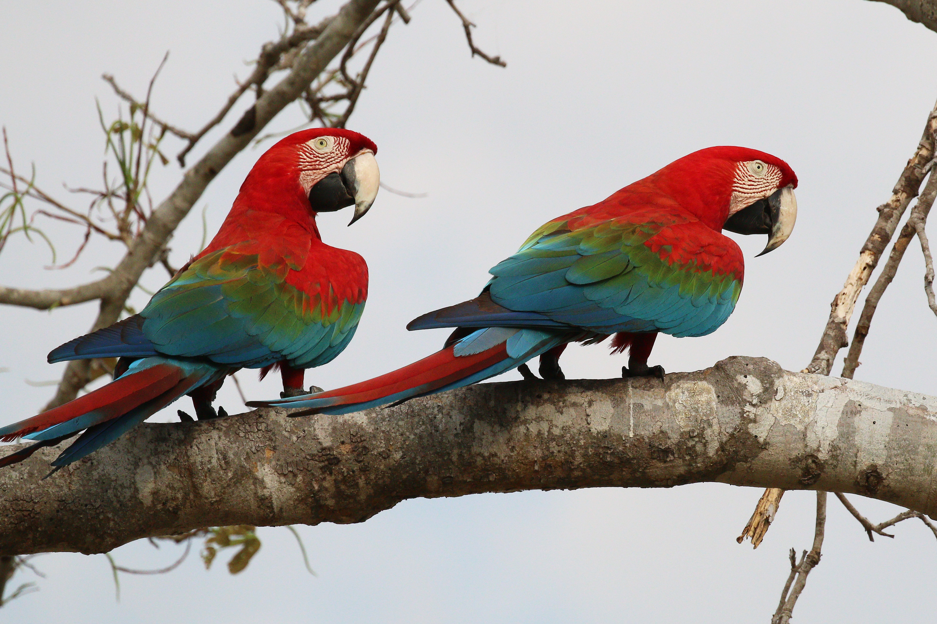 Red-and-green macaws (Ara chloropterus)